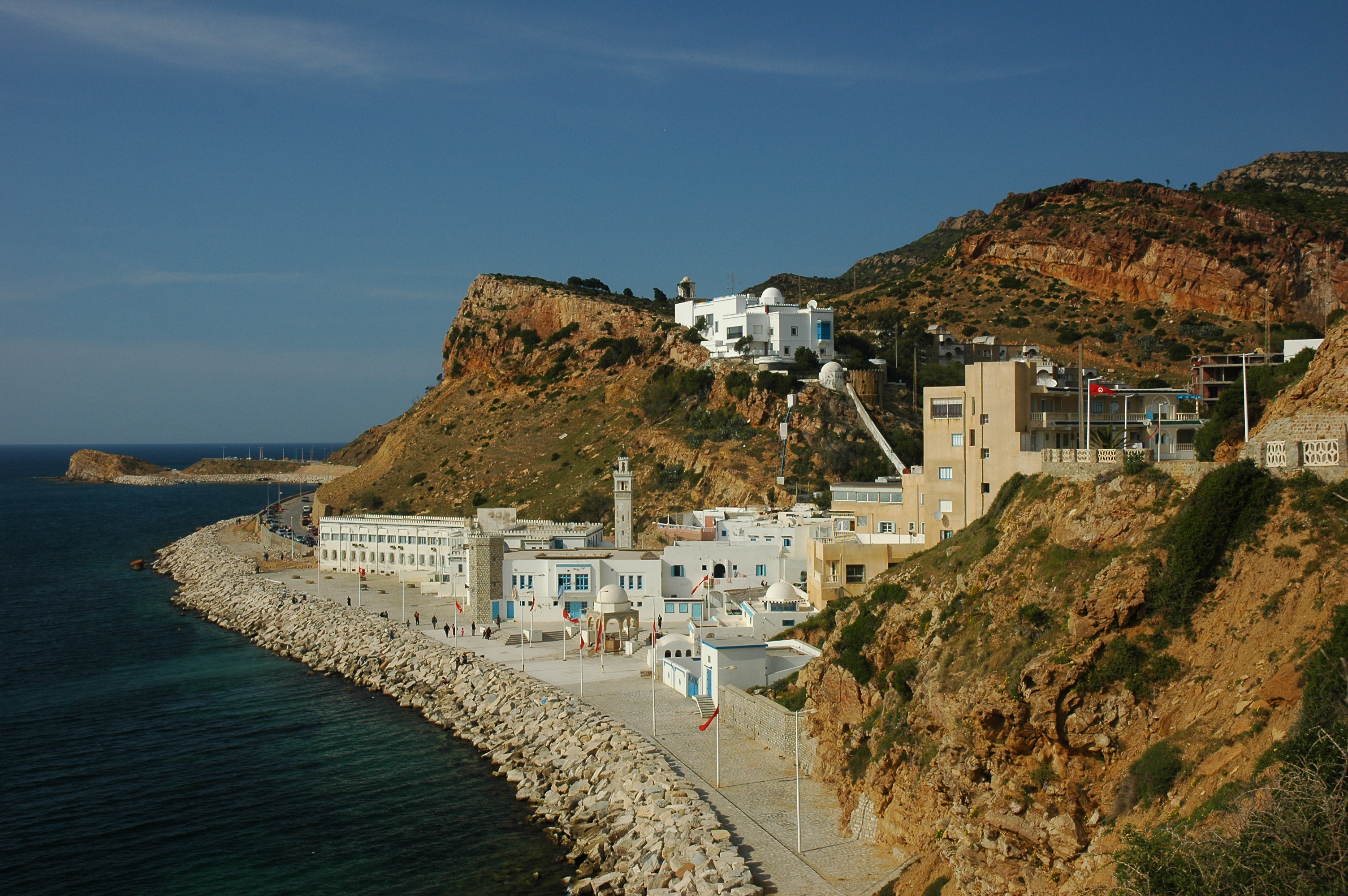 Korbous in Tunisia